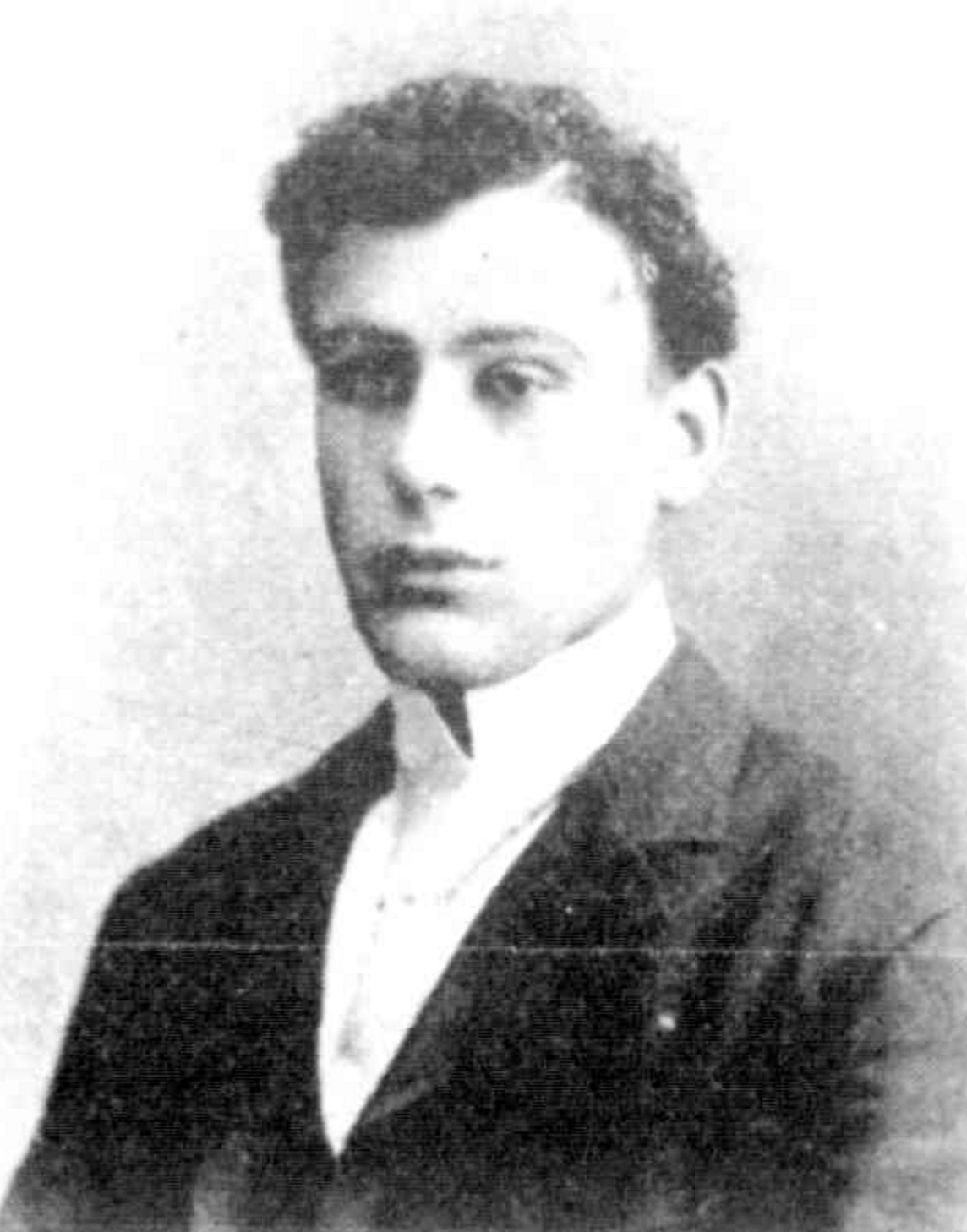 Portrait of Pat Descrimes published in Melbourne Punch with portraits of several dozen other Victorian Football League players.